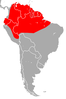 Frosted Sac-winged Bat (Saccopteryx canescens) range